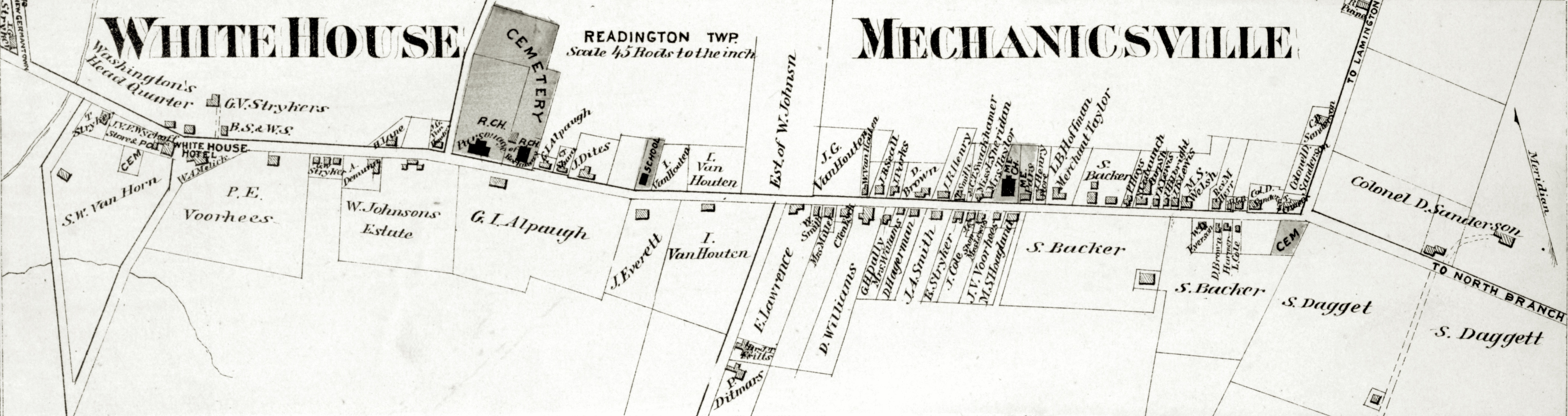 Detail of Whitehouse, New Jersey and Mechanicsville, New Jersey, cropped from Station [Village]; White House, Mechanicsville [Village]; White House and Mechanicsville Business Notices.; Readington Township Business Notices.; Atlases of the United States / New Jersey / Atlas of Hunterdon County, New Jersey : from recent and actual surveys and records / under the superintendence of F.W. Beers.